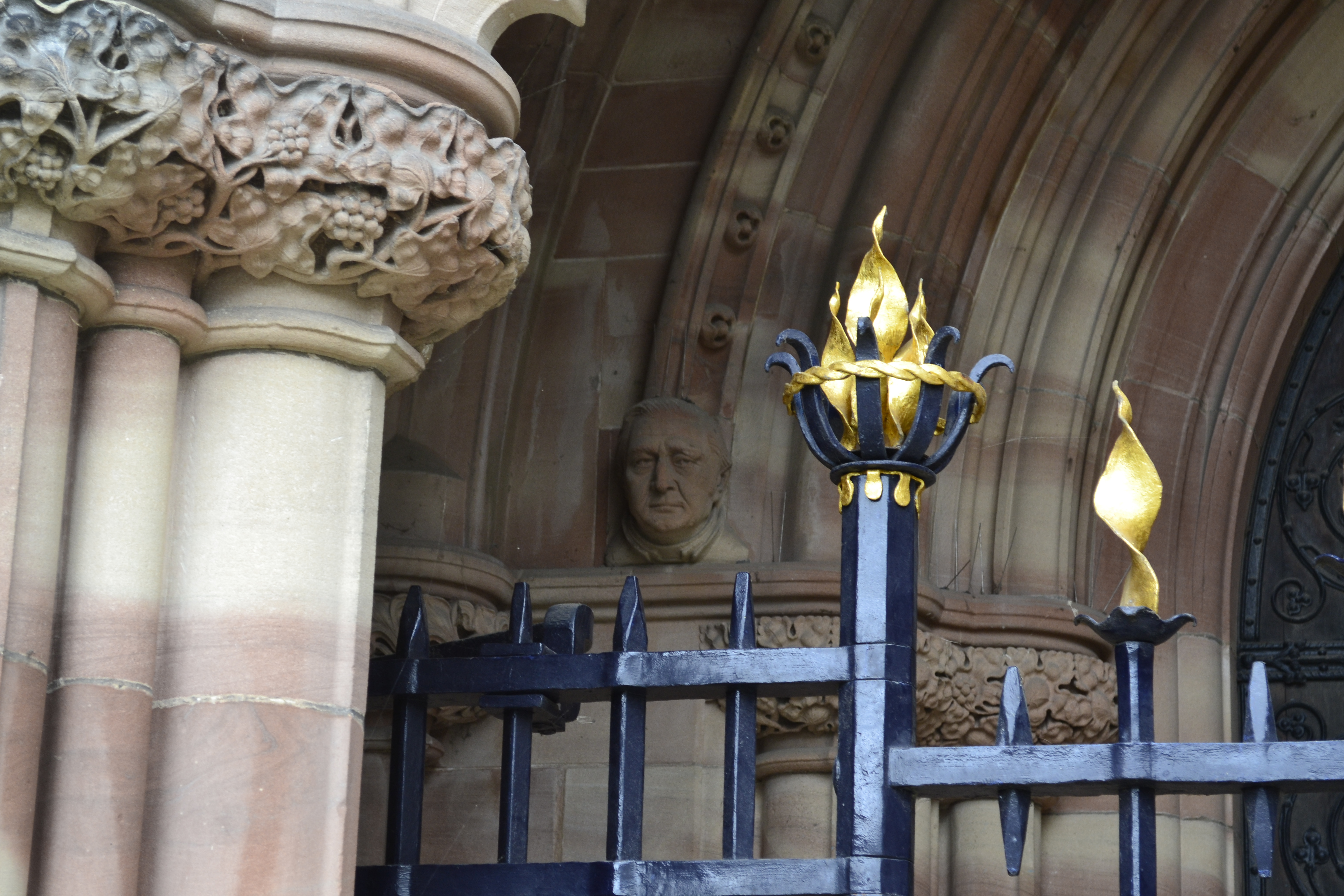 Photo showing a corbel from the restored West Front of Hereford Cathedral